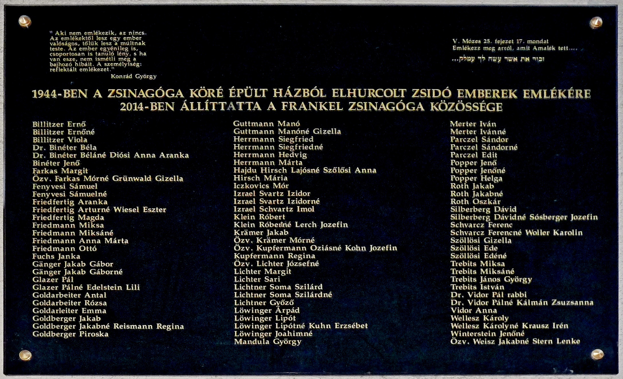 Plaque commemorating the victims of the Holocaust in 1944 inhabited in the houses built around the synagogue of the street Leó Frankel. It is affixed to the common gateway of the dwelling-houses and the place of worship. (Budapest, District II, Frankel Leó Street Nr 49)